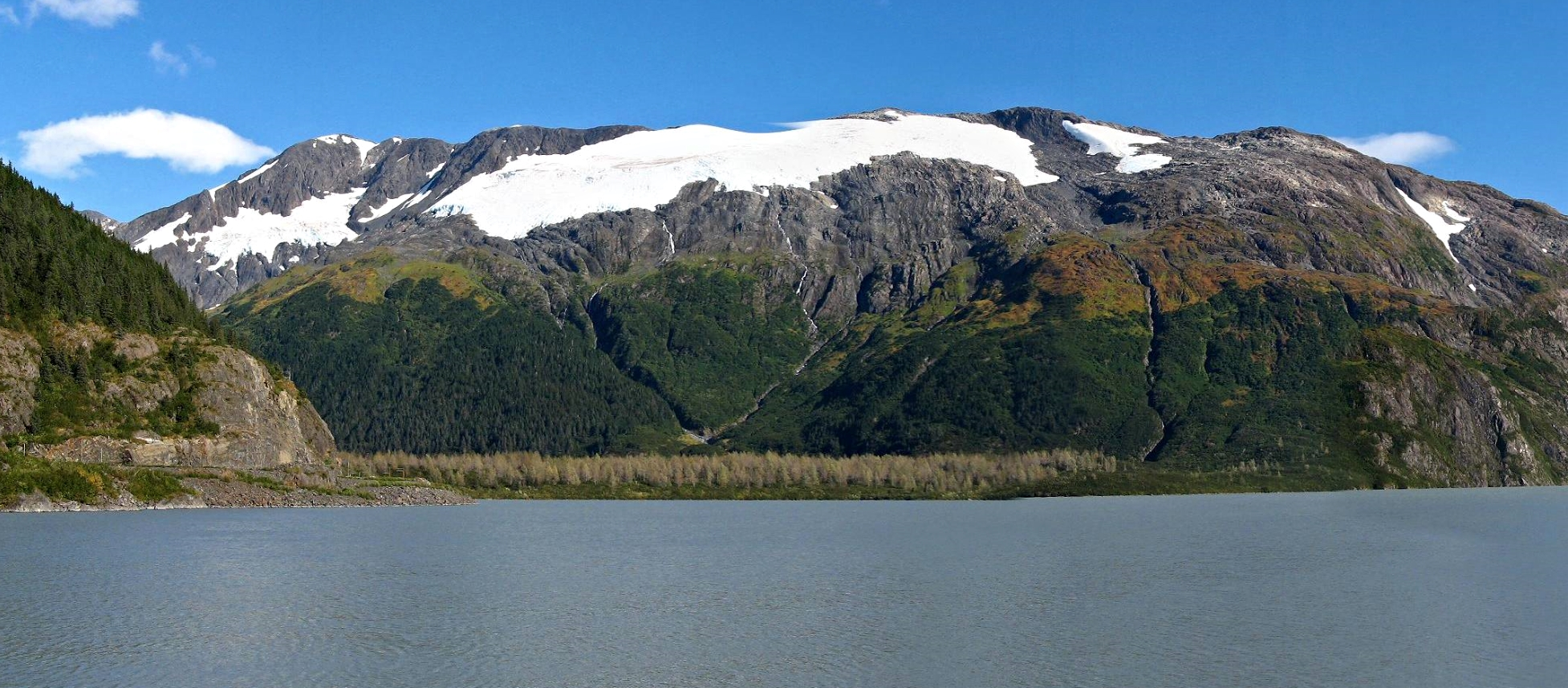 Maynard Mountain surrounding Portage Lake in Alaska